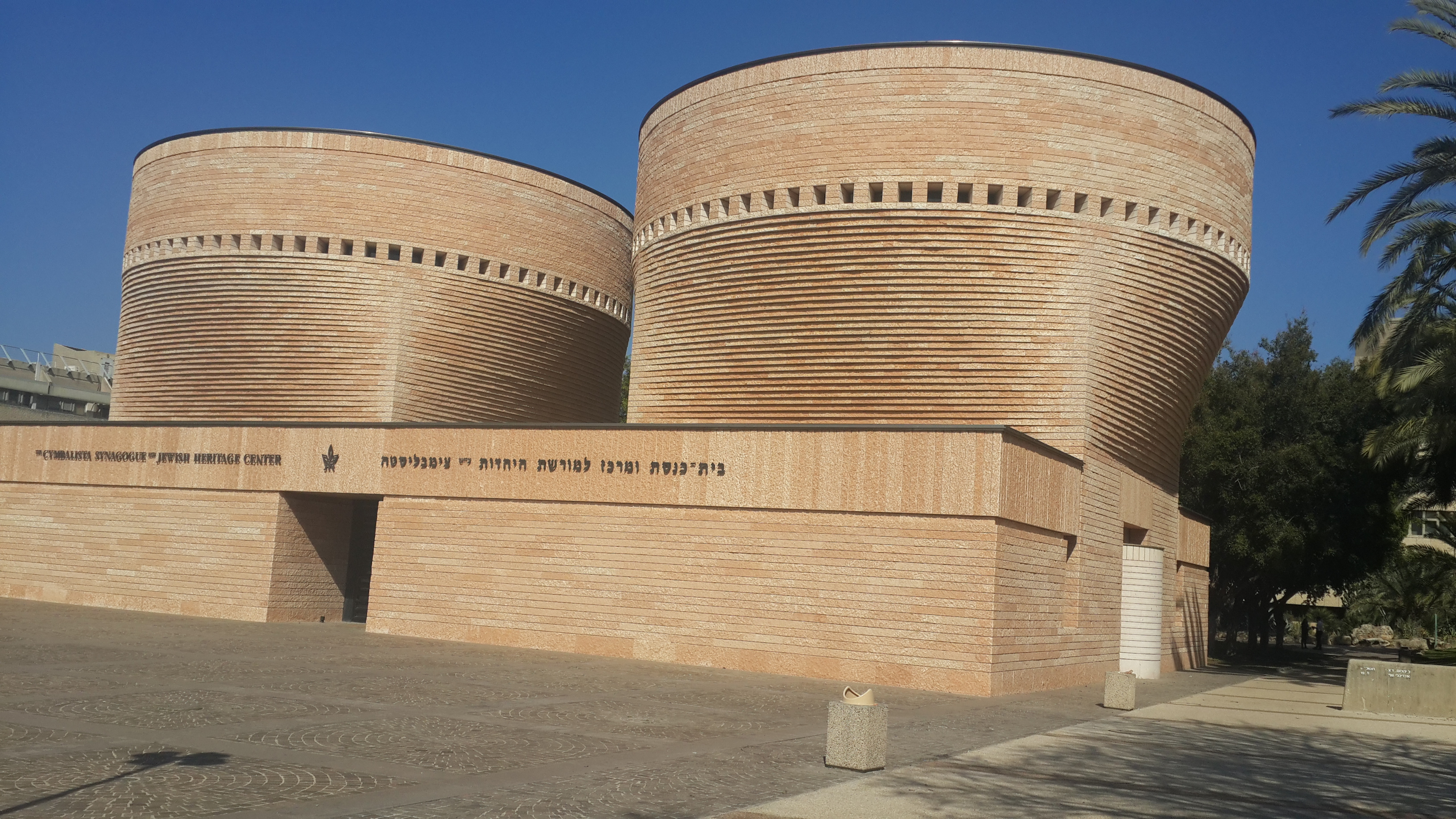 Cymbalist Synagogue & Jewish Heritage Center at Tel Aviv University